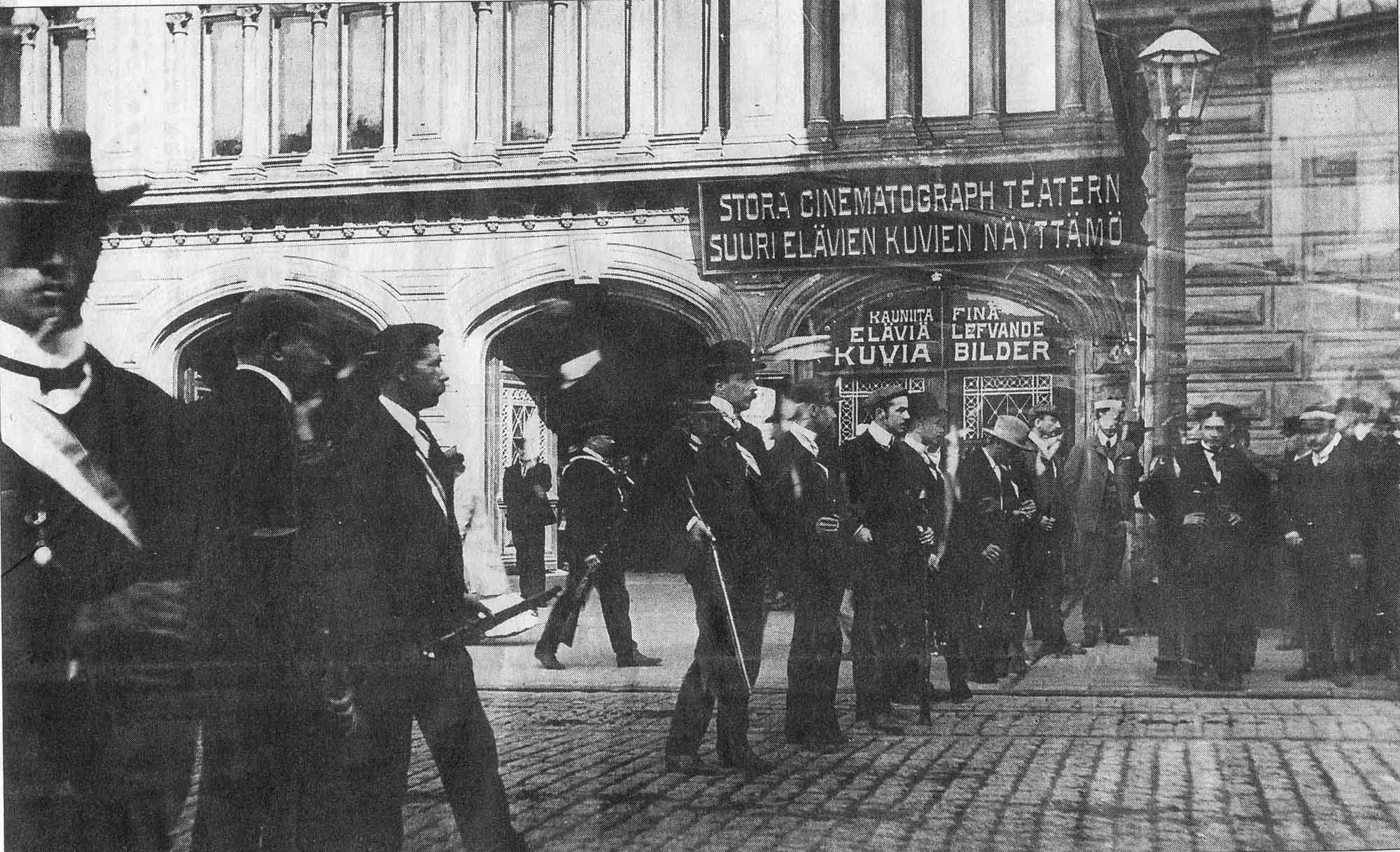 White corps form a street block in the Keskuskatu of Helsinki during the riots in Hakaniemi on 2 August 1906.